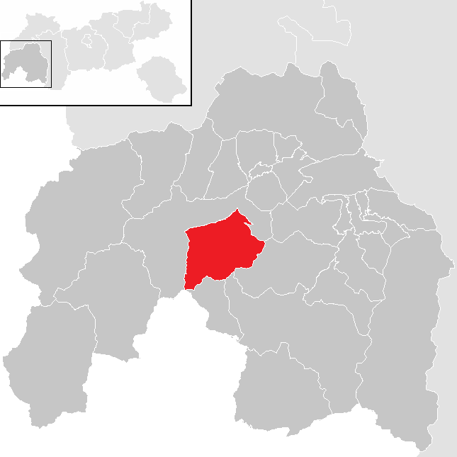 District Landeck